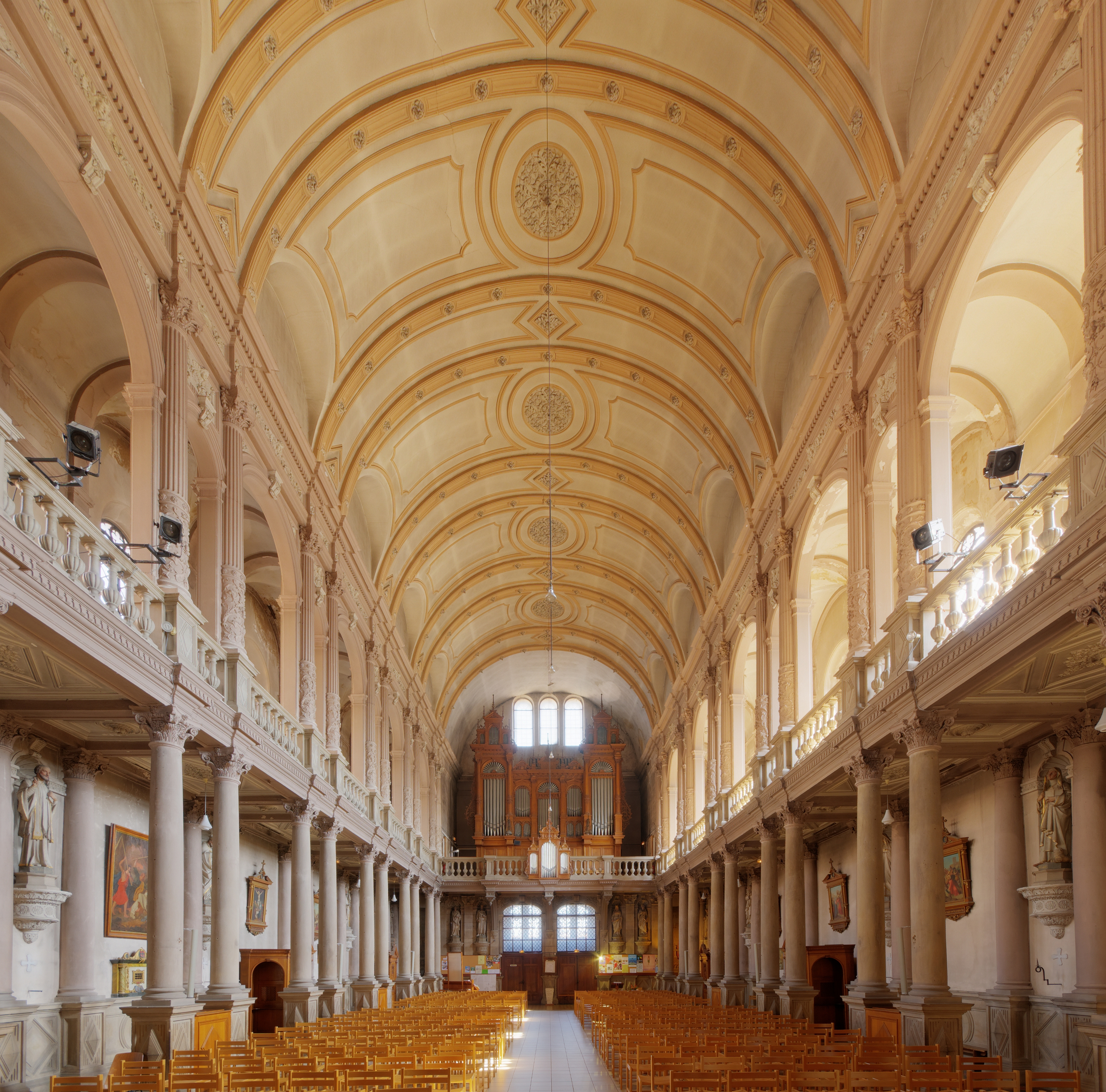 Interior of Saint-Maimbœuf Church in Montbéliard (Doubs, France), taken in HDR.